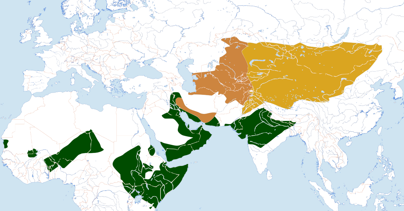 Lanius isabellinus & Lanius phoenicuroides: Distribution Map